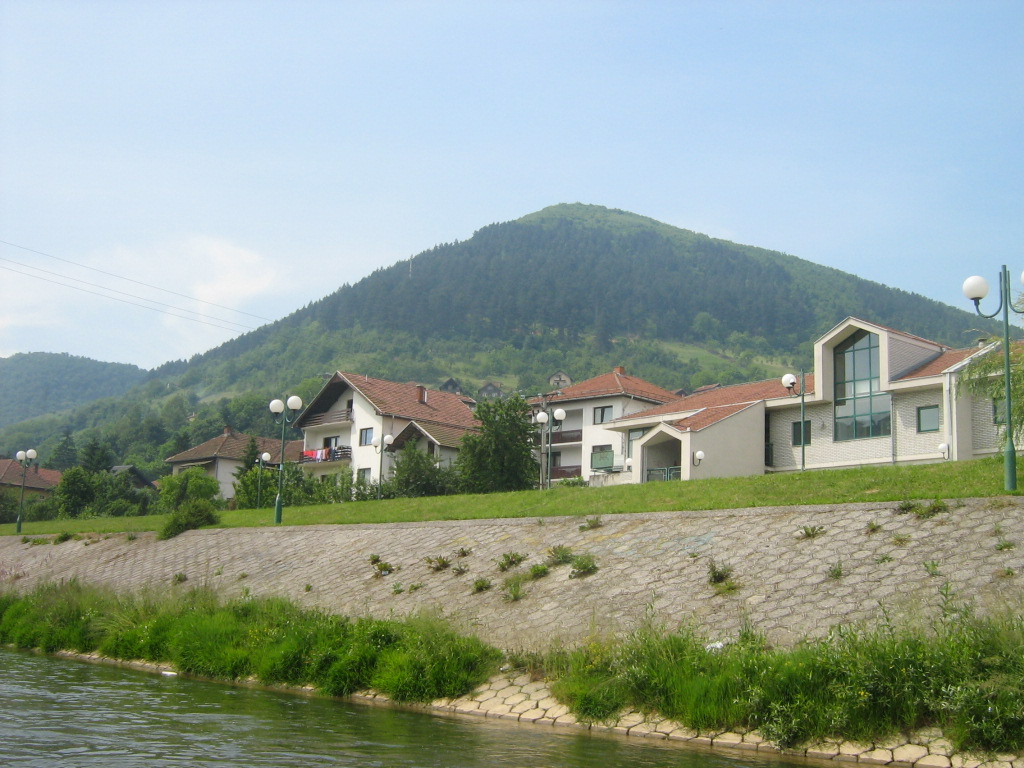 Visočica, alleged Bosnian pyramid